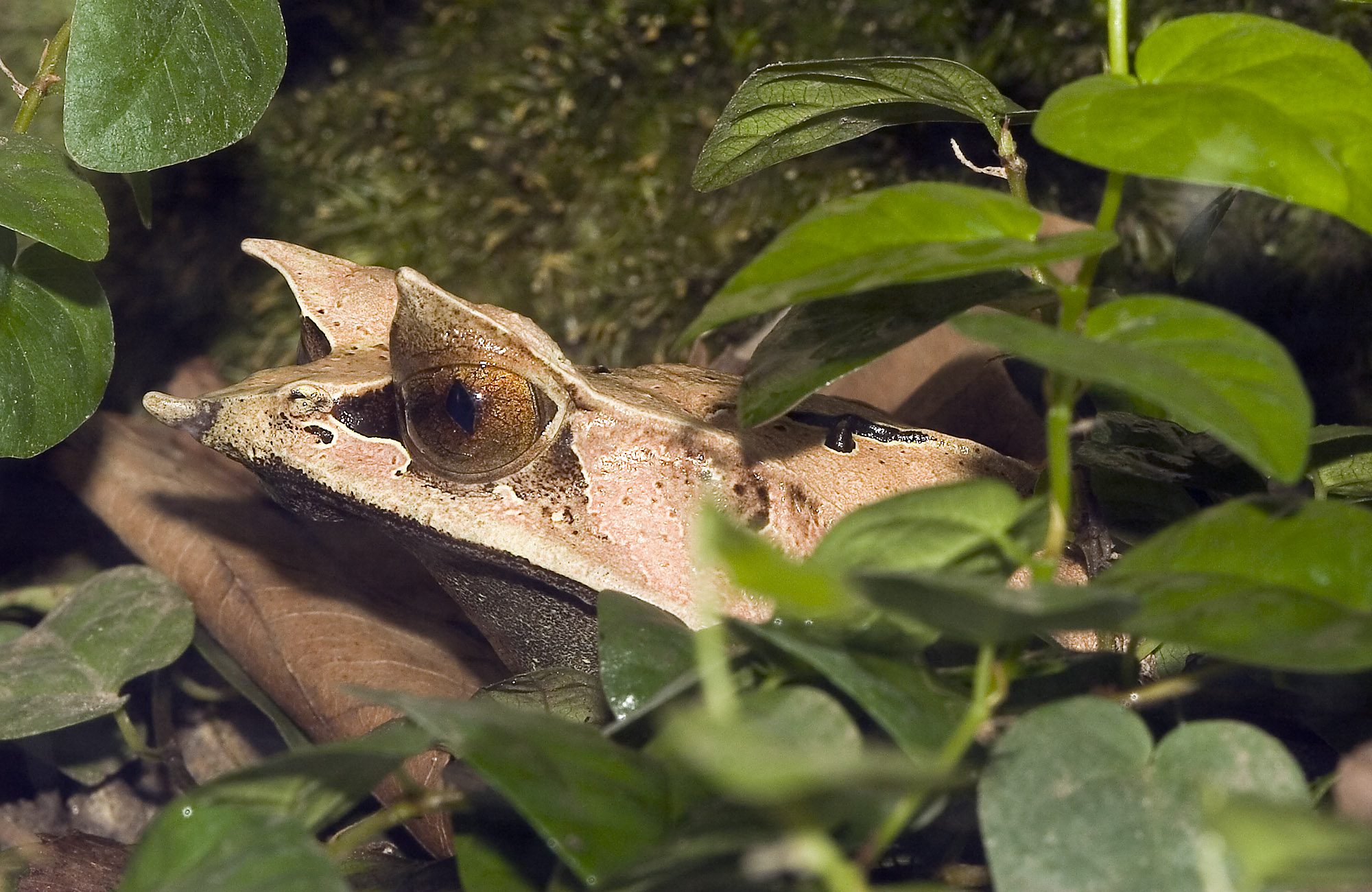 Long-nosed Horned Frog, Megophrys nasuta